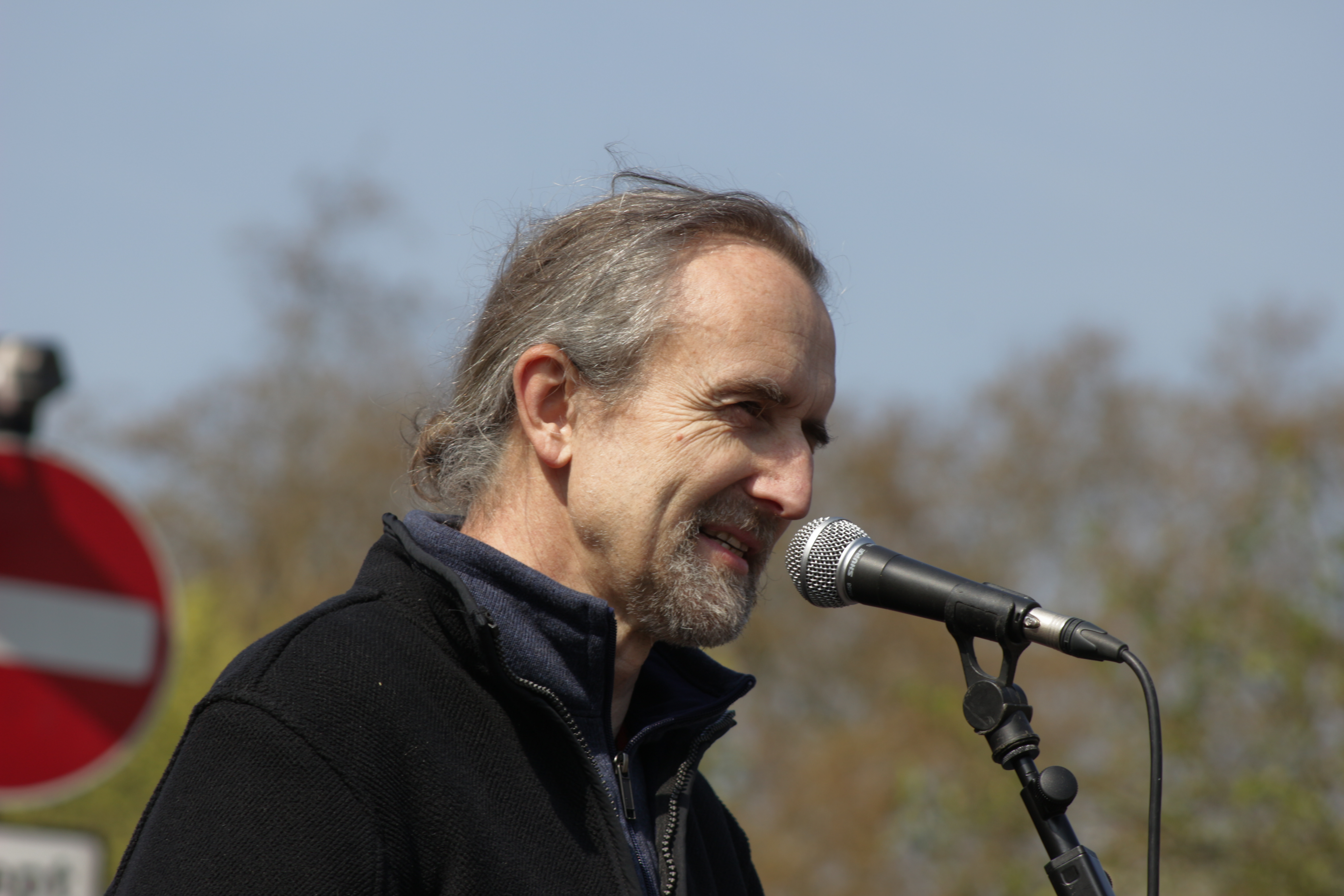 Roger Hallam. At an Extinction Rebellion event: Shut down London! From Marble Arch to Waterloo Bridge via Piccadilly Circus. 15 April 2019.